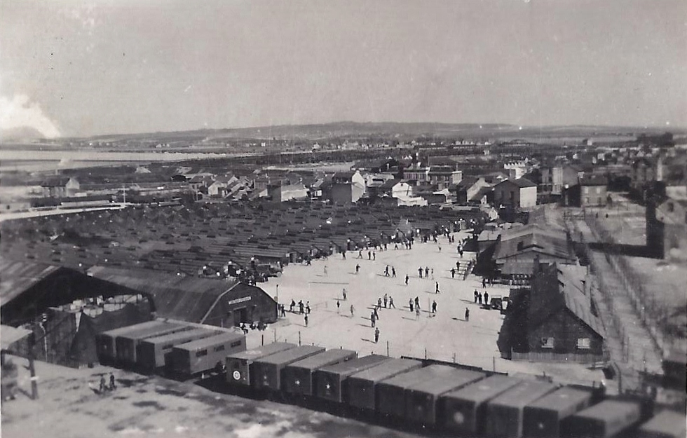 U.S. POW camp Reims (France) - Blocklager 2A (1946)